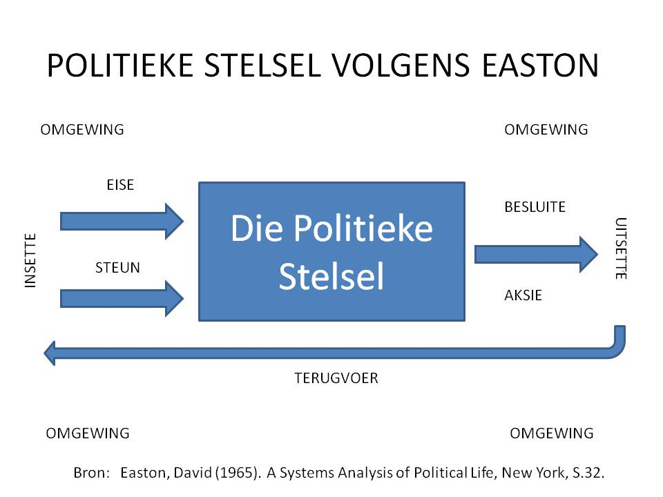 David Easton's Systems Analysis